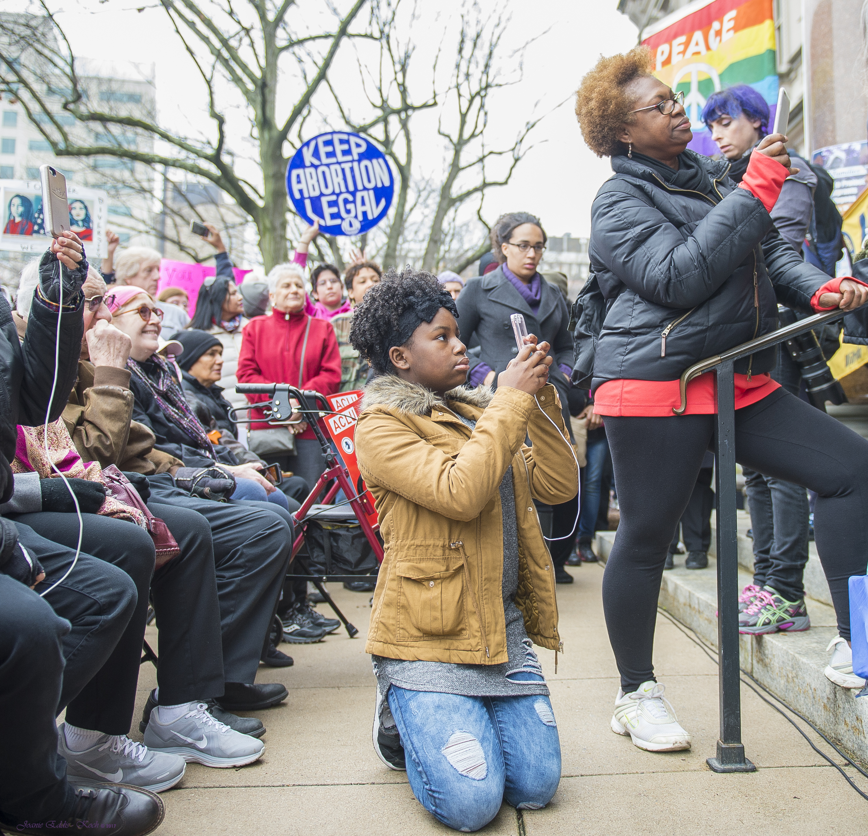 New Jersey State Assemblywoman Elizabeth Muoio speaks to the crowd in Trenton attending the Women's March on New Jersey 1 21 17